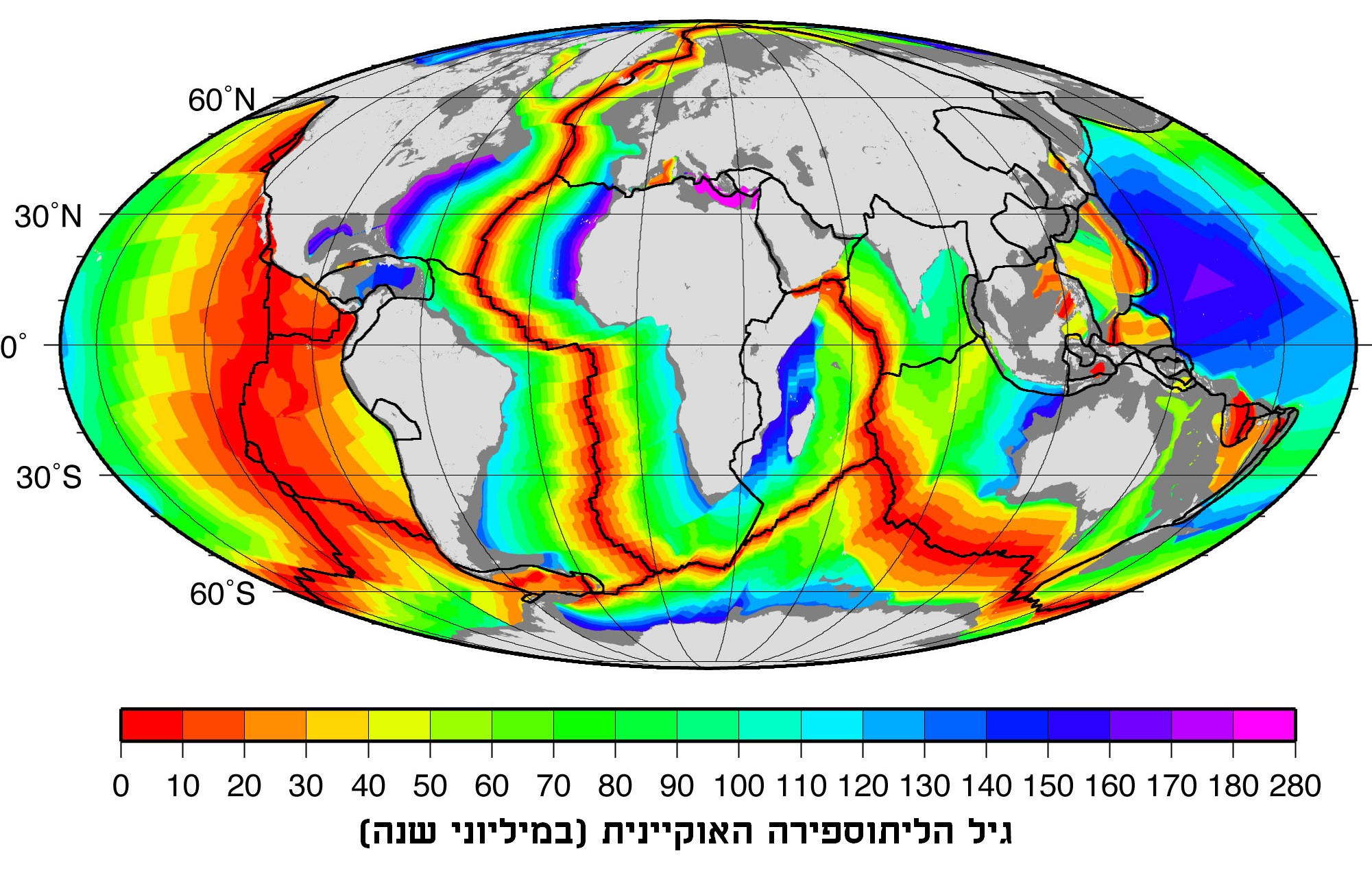 Age of oceanic lithosphere - Hebrew